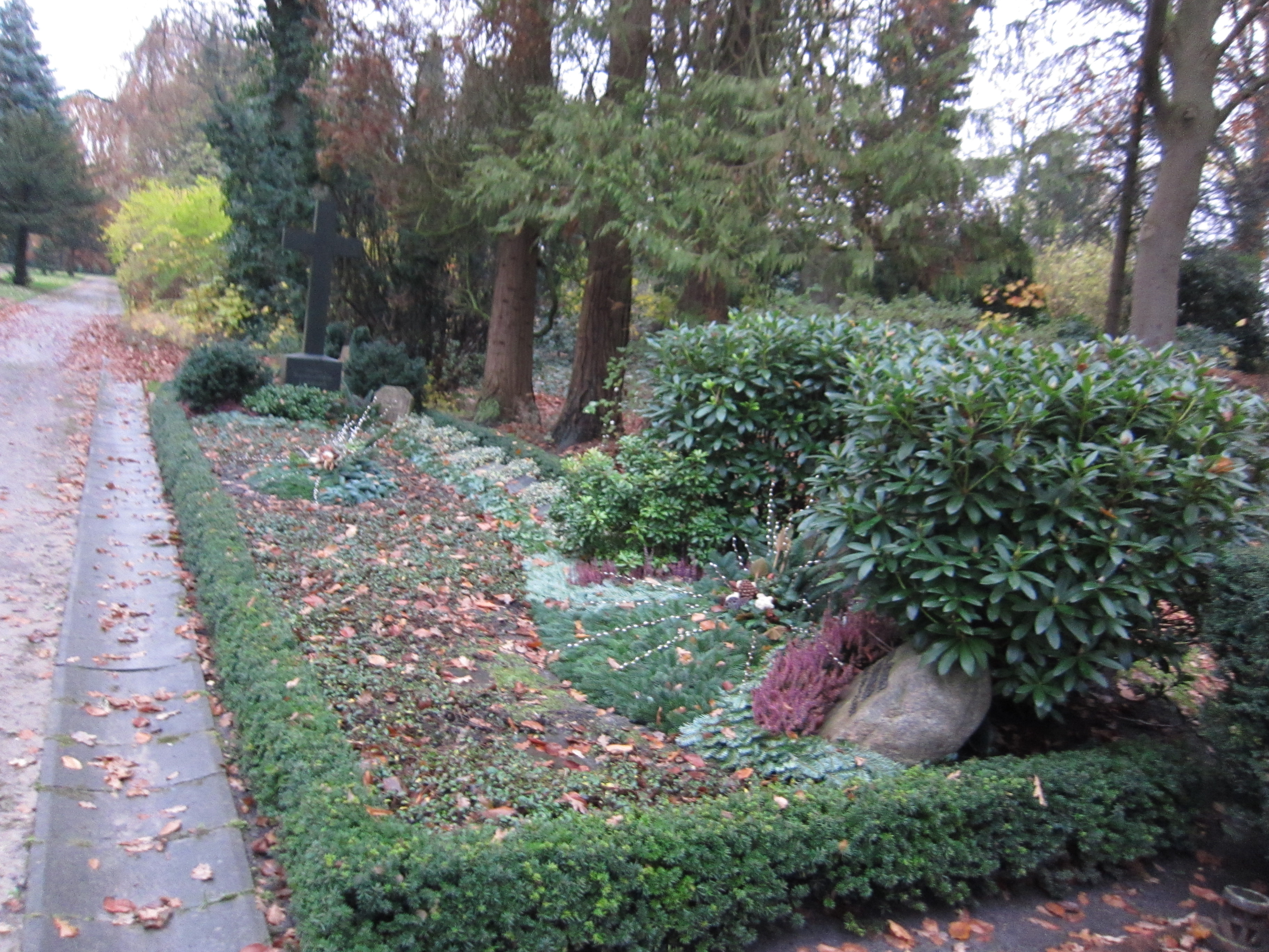 Family grave of the family "Löhmann" in Flensburg